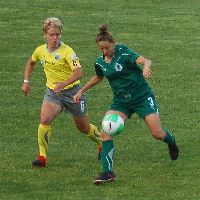 Lori Lindsey of the WPS Philadelphia Independence.